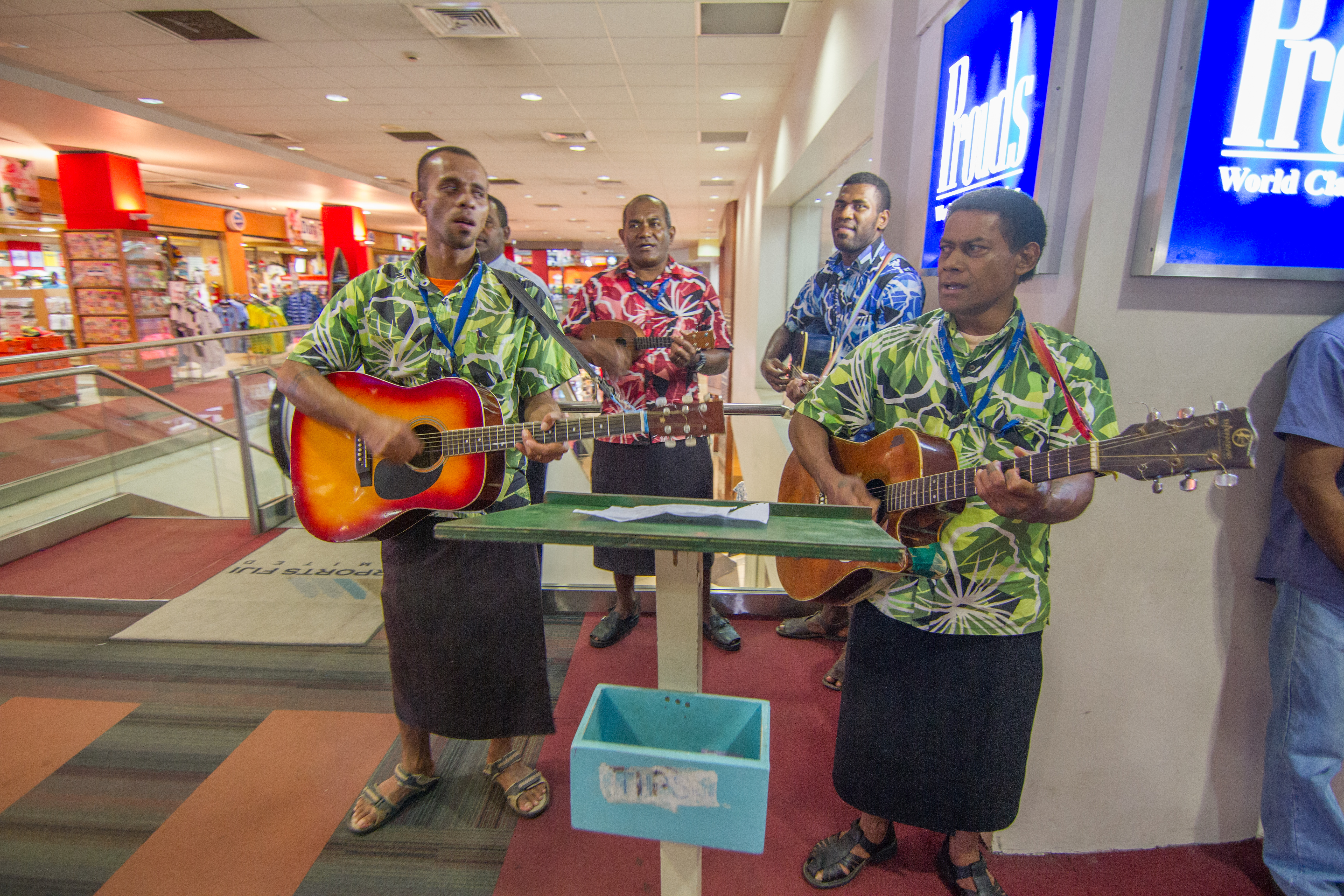 Fijian music band at arrivals hall of Nadi International airport